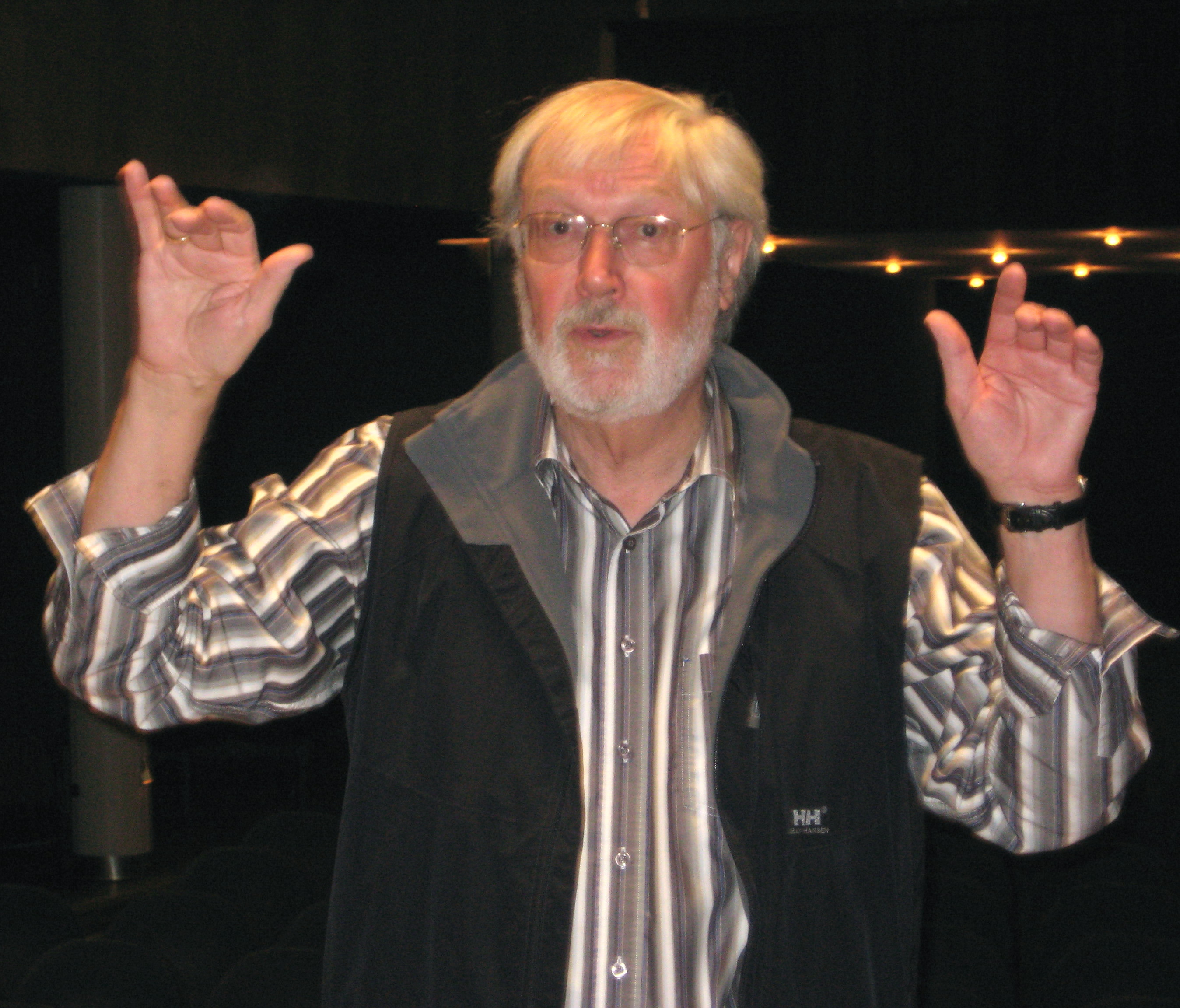 Conductor Fritz Bultmann